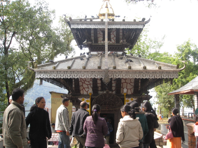 A temple in Nepal.